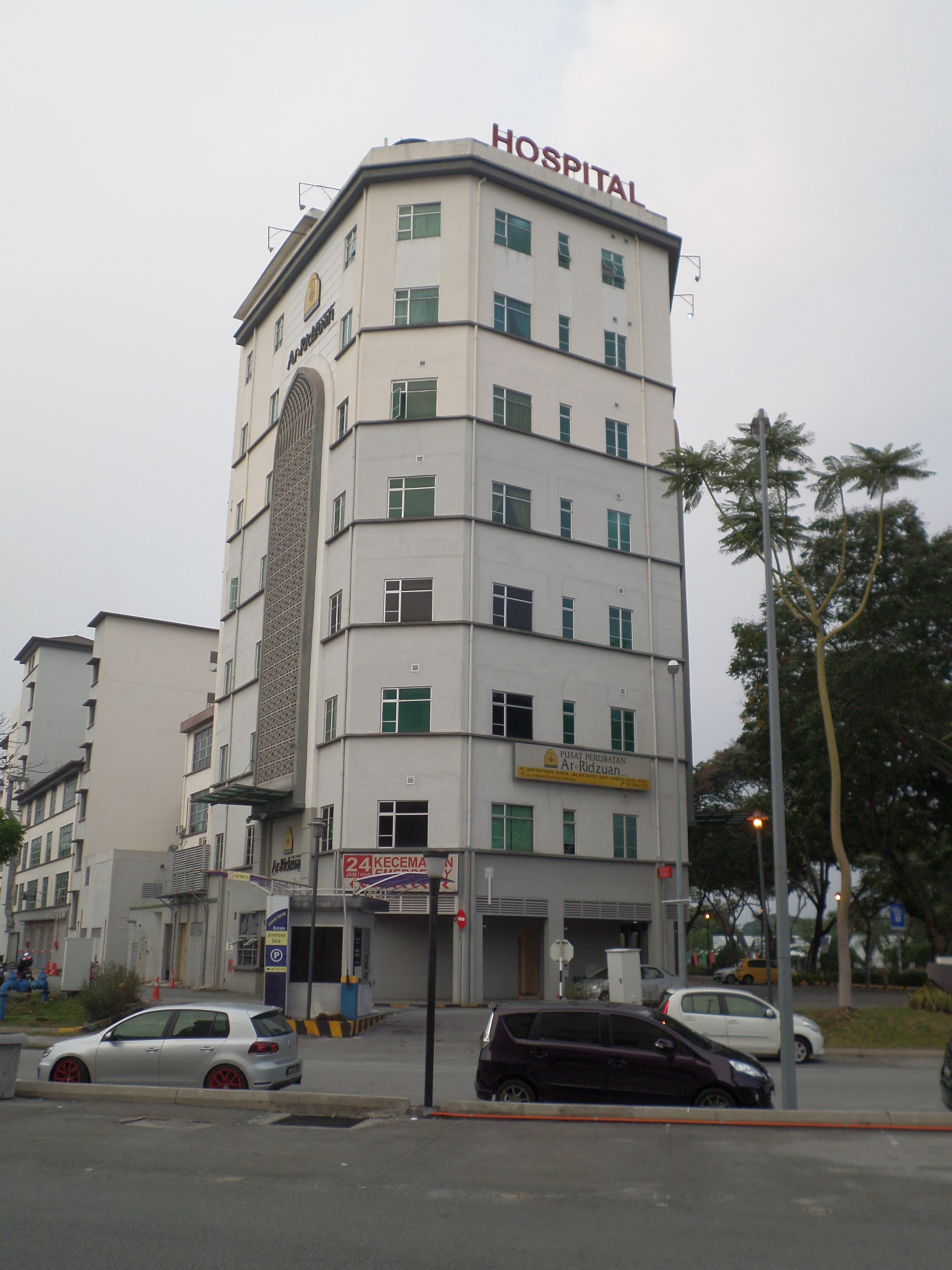 Ar-Ridzuan Medical Center, Ipoh, Kinta, Perak, Malaysia